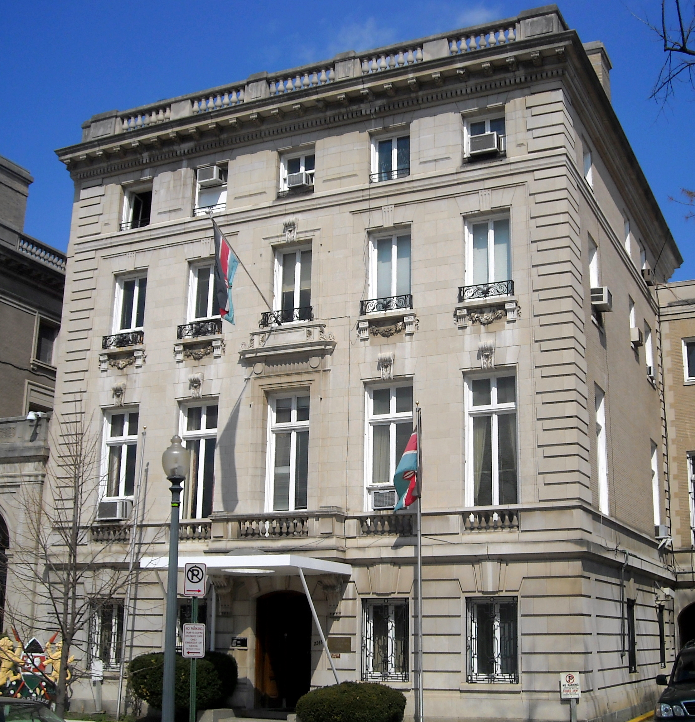 The Embassy of Kenya in Washington, D.C. — Embassy of the Republic of Kenya located on Sheridan Circle at 2249 R Street, NW in the Sheridan-Kalorama neighborhood of Washington. A contributing property to the Sheridan-Kalorama Historic District and Massachusetts Avenue Historic District, listed on the National Register of Historic Places in Washington, D.C.. Previous owners of the Beaux-Arts building include C. Peyton Russell (original owner; 1908-1915); San Francisco/California politician James D. Phelan (residence while serving in the United States Senate; 1915-1921); and the government of Sweden (embassy; 1921-1971). The 2009 property value of the Kenyan embassy is $6,554,280 ($6,133,120 - main building; $421,160 - side building).